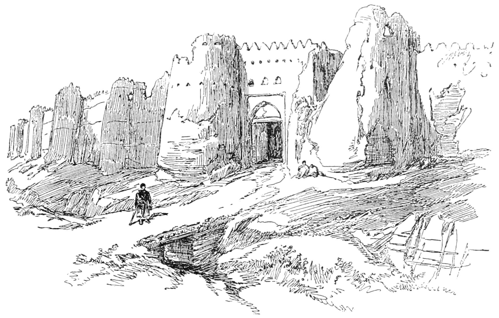 Mud walls of Nishapur Khorassan